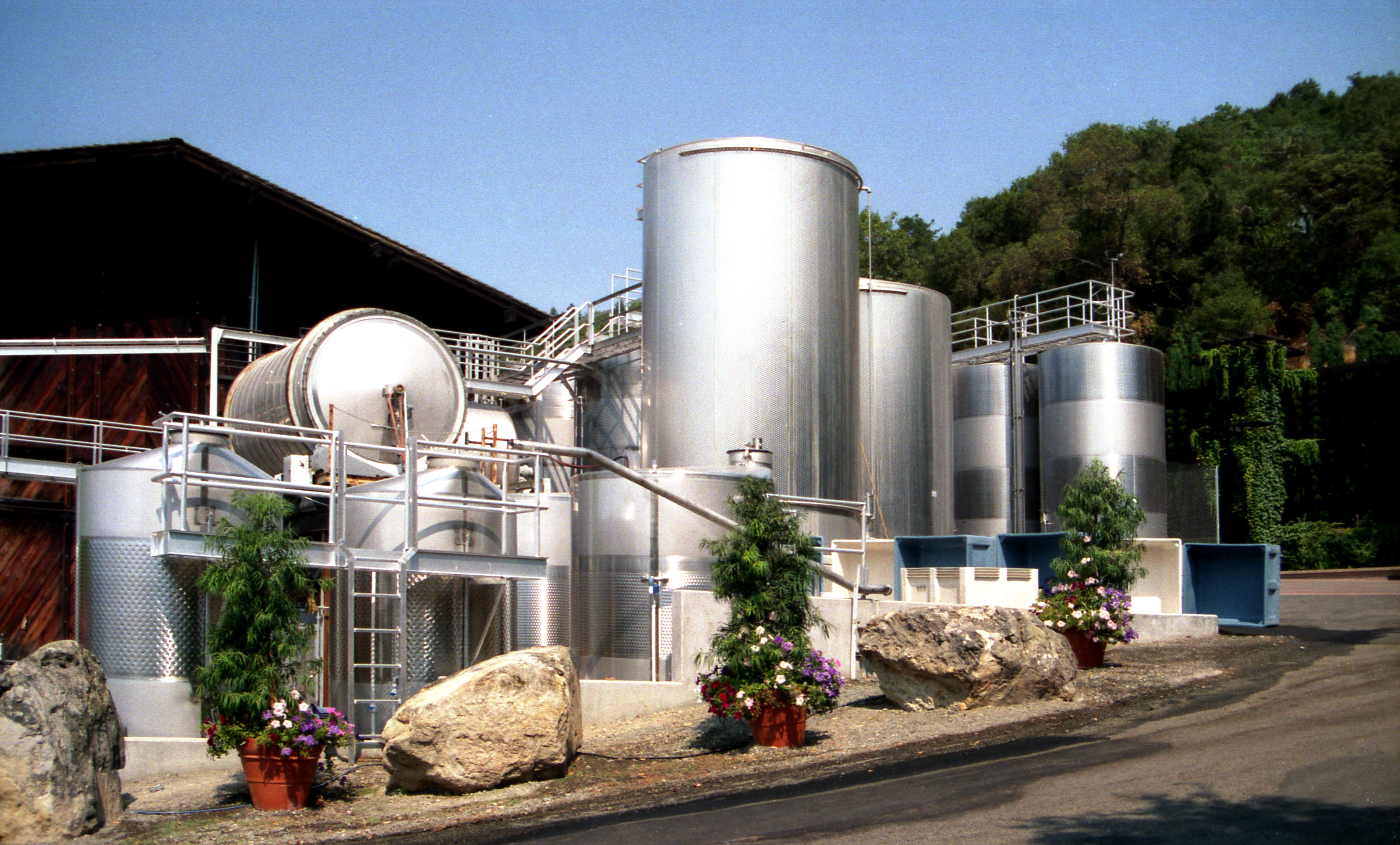 Robert Mondavi Winery, Napa Valley, California